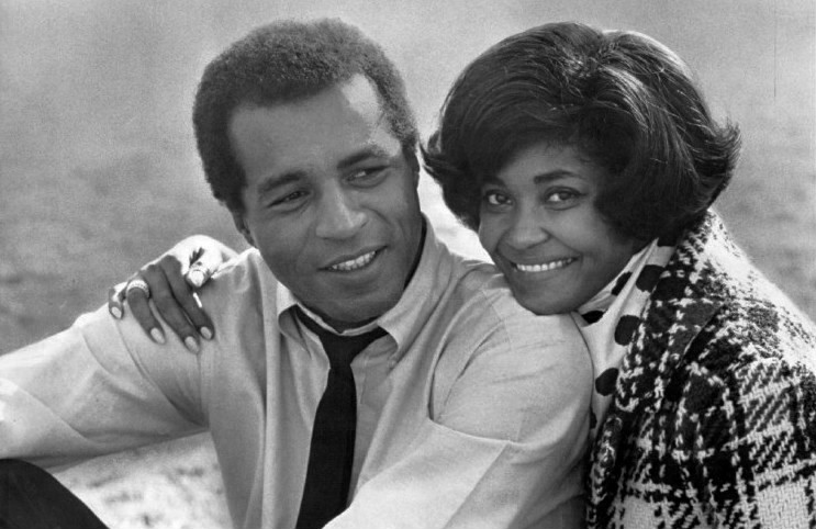 Publicity photo of Lloyd Haynes and singer Nancy Wilson (guest star) from the television program Room 222.